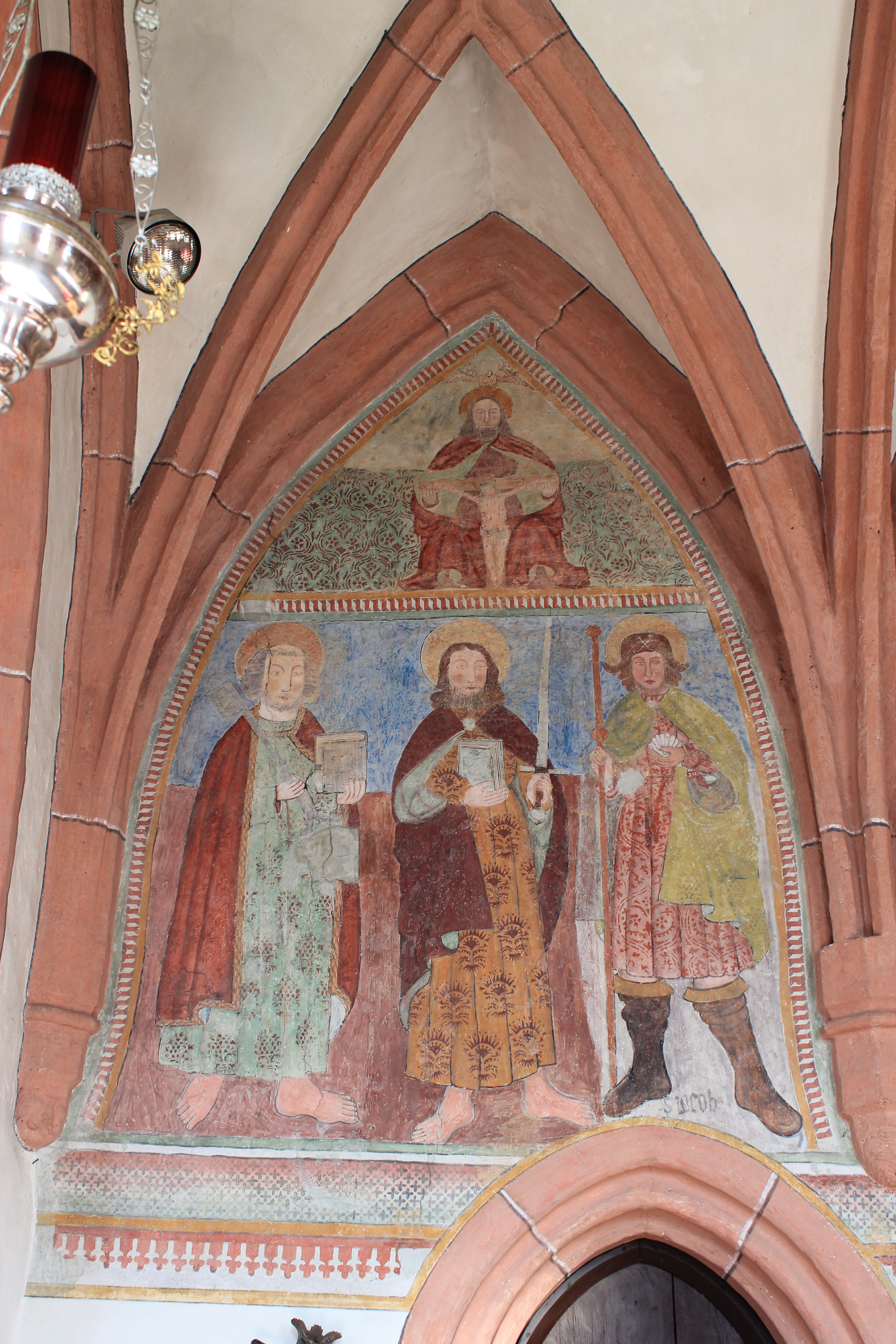 Church in St Paul in the community of Sankt Stefan im Gailtal - Fresco